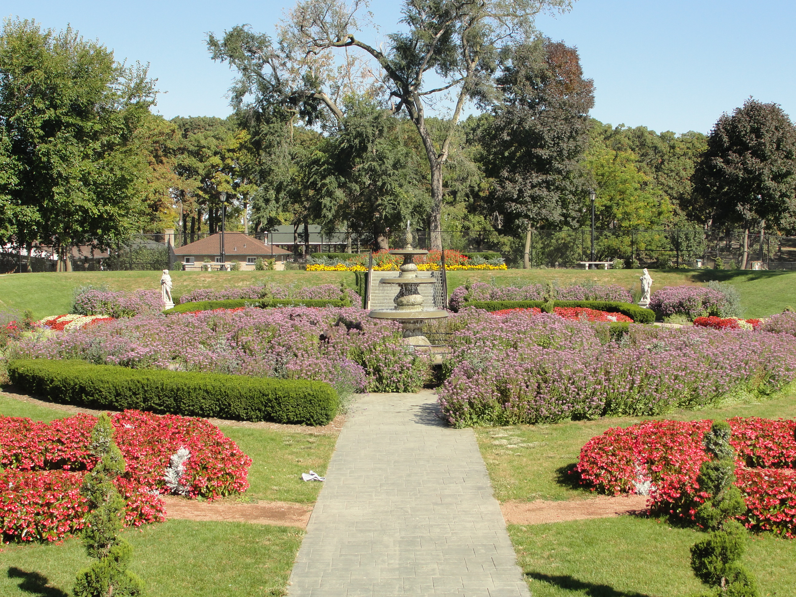 The Sunken Garden in Phillips Park, Aurora, IL.